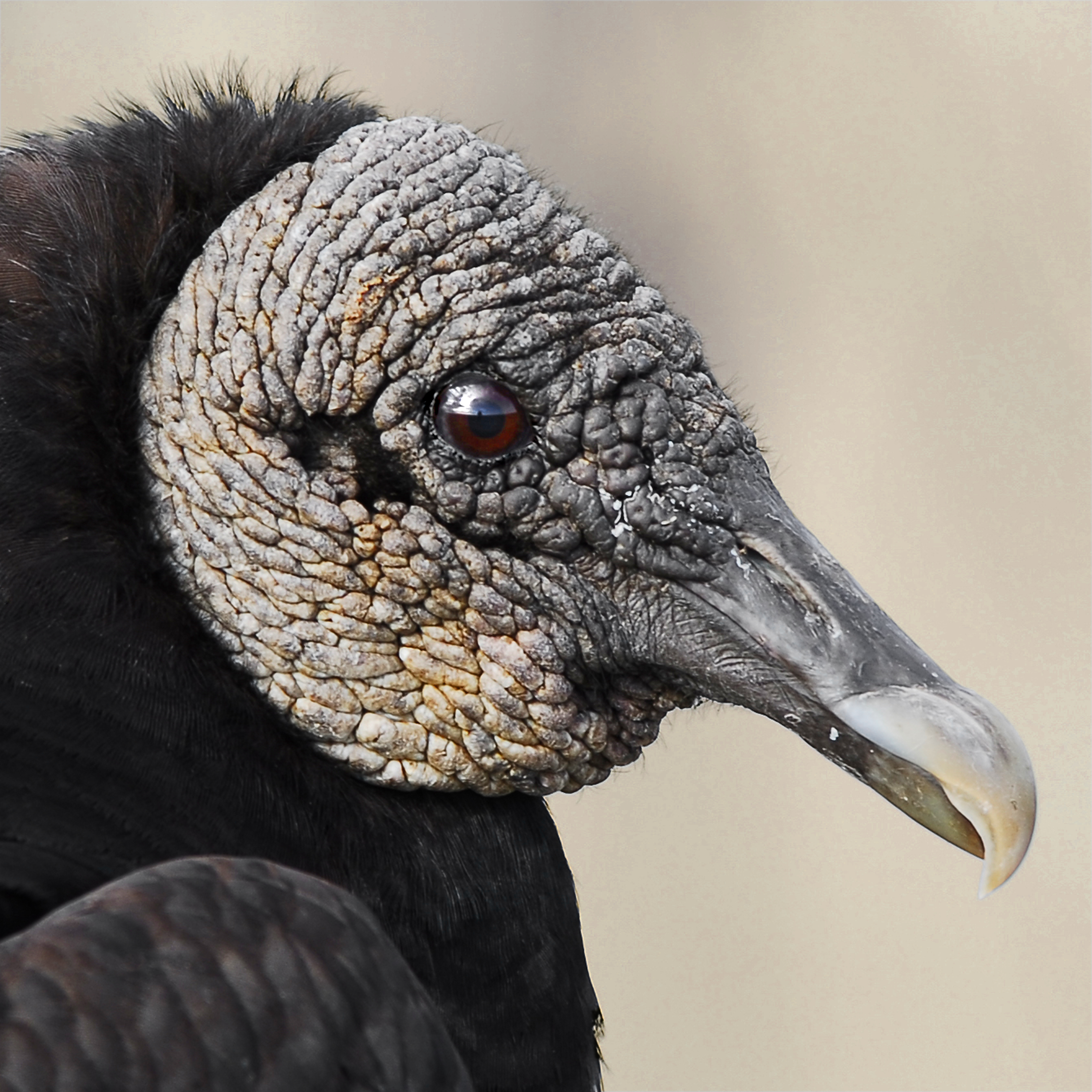 A Vulture's Eye (Black Vulture / Coragyps atratus). A member of the Lake Woodruff clean-up crew